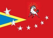 Independencia municipality flag (Yaracuy), Venezuela